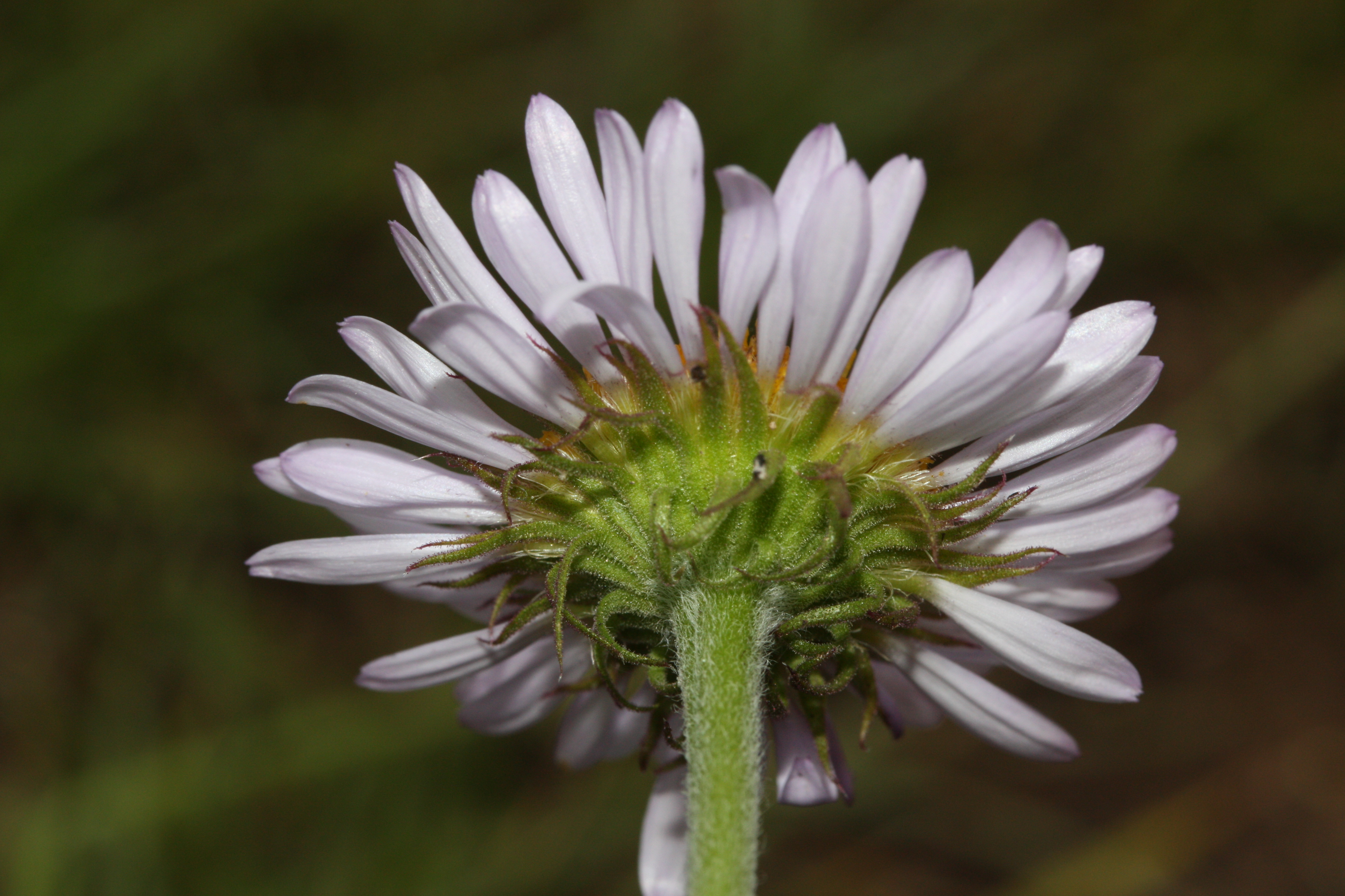 Subalpine Fleabane, Peregrine Fleabane